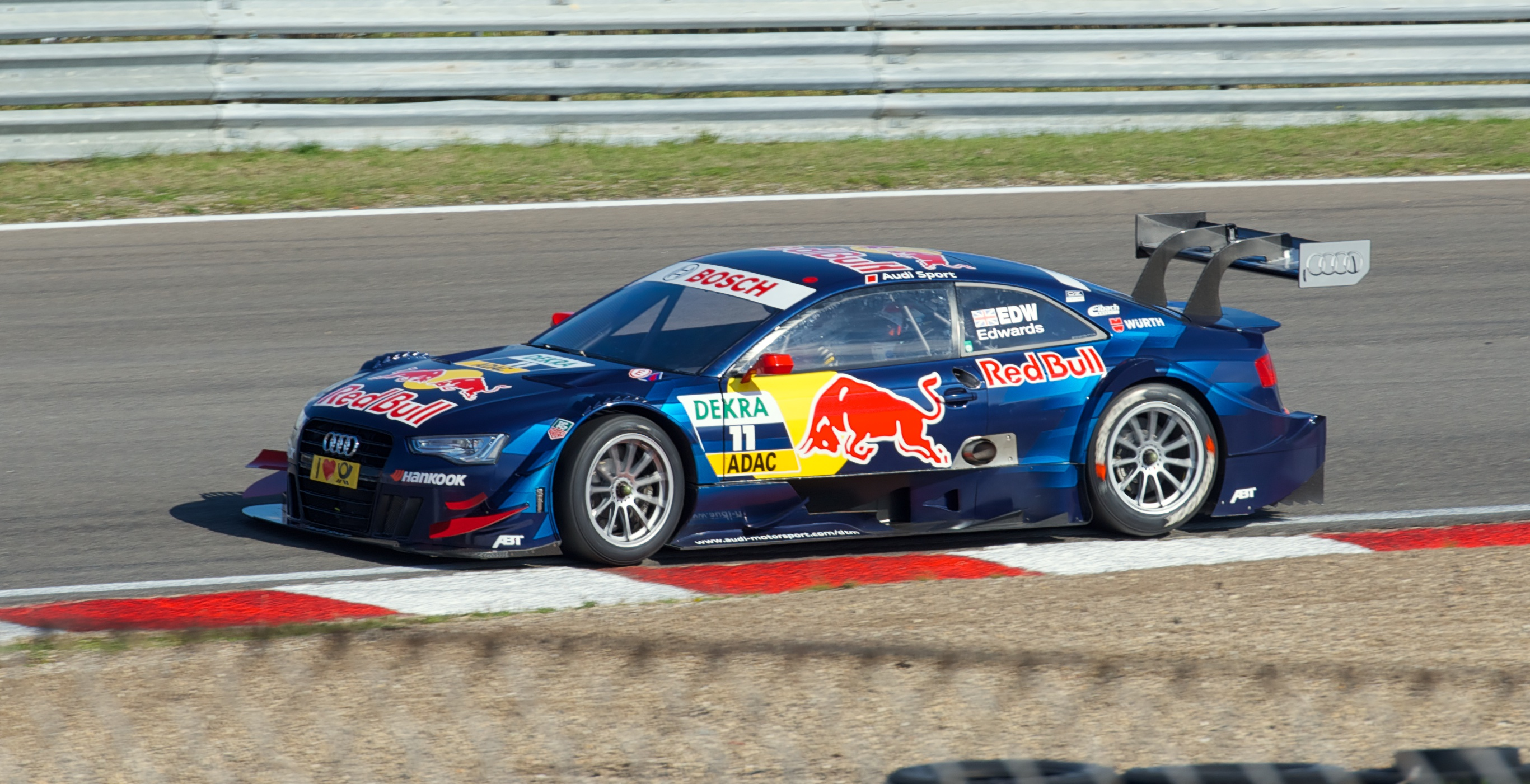 Audi RS5 DTM (R17) of Abt Sportsline